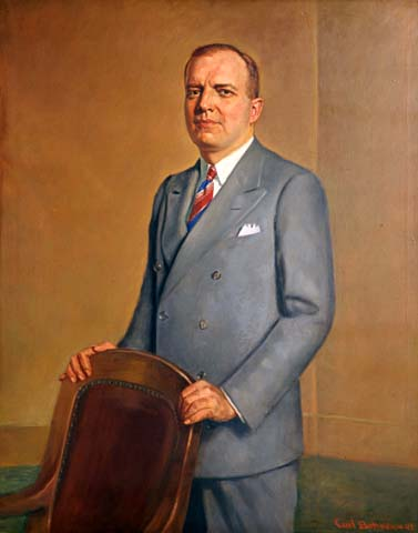 The image is the official State of Minnesota portrait of Harold Stassen depicted while being governor.